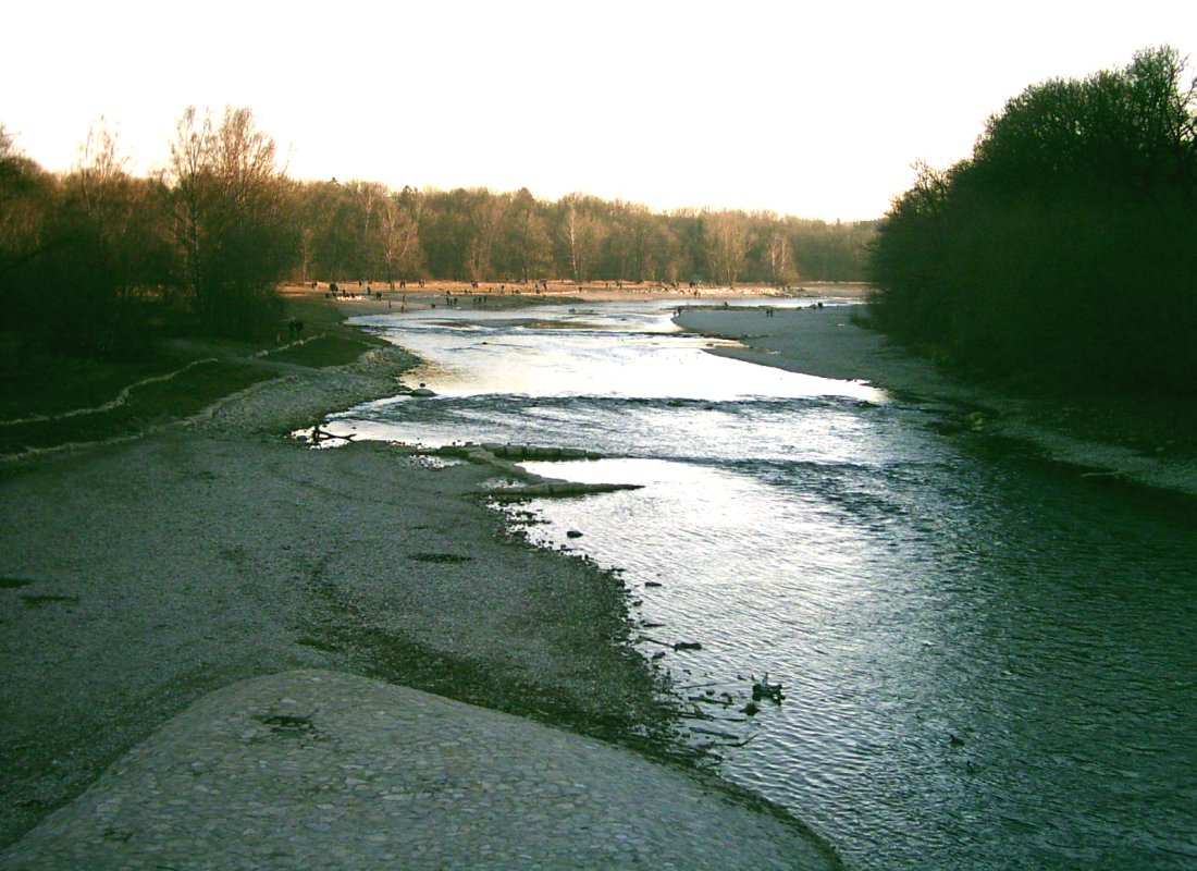 Isar River in Munich, view south from Brudermuehlbrücke